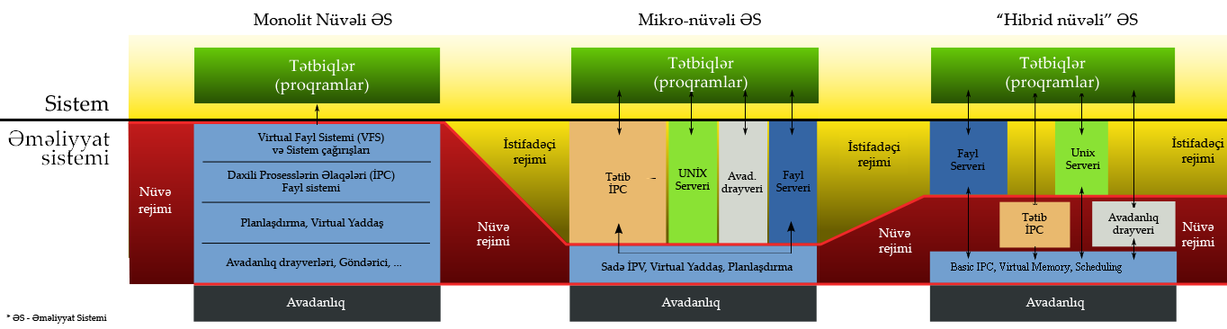 Hiper-prosessor